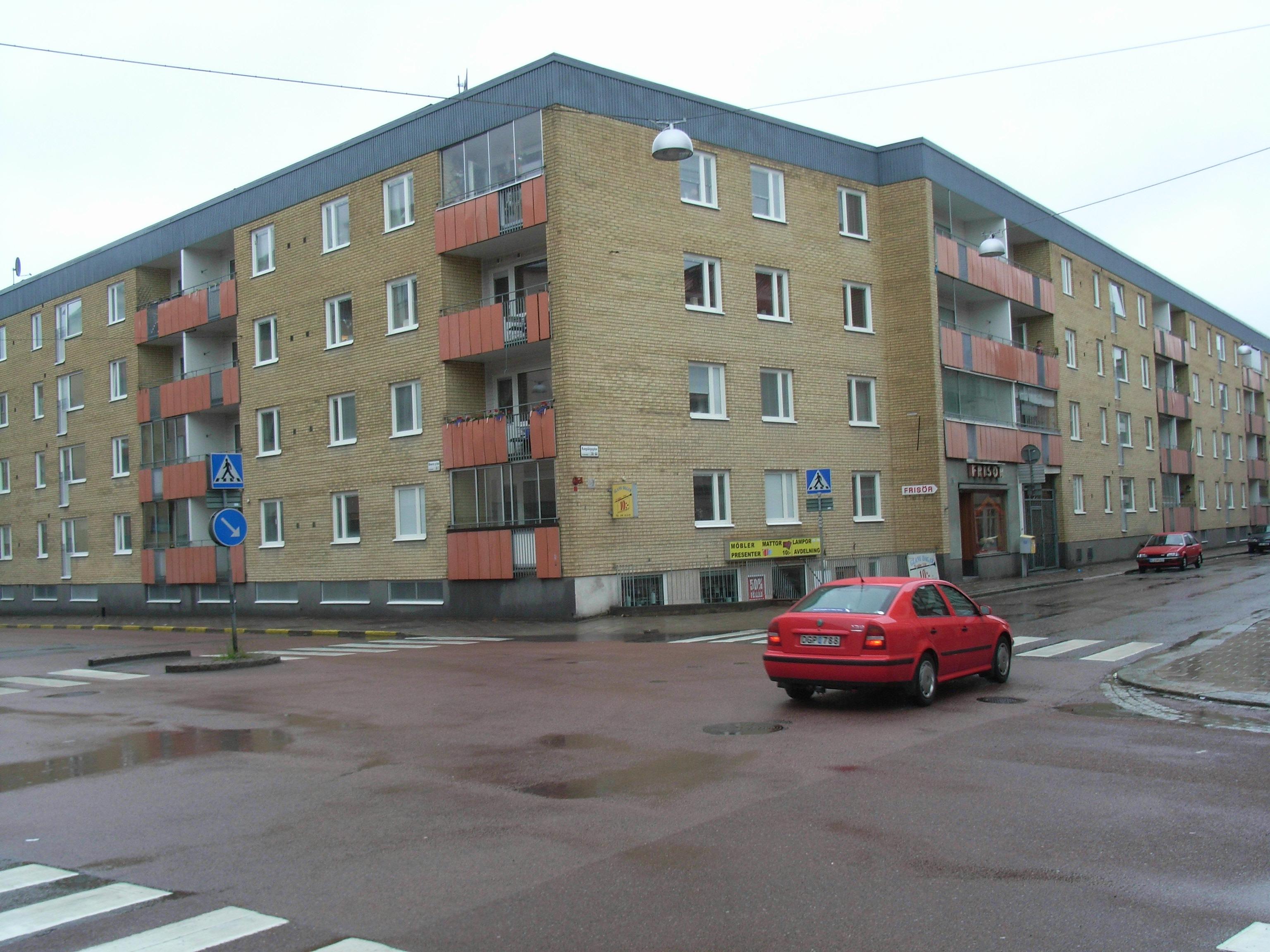 Apartments in Uppsala